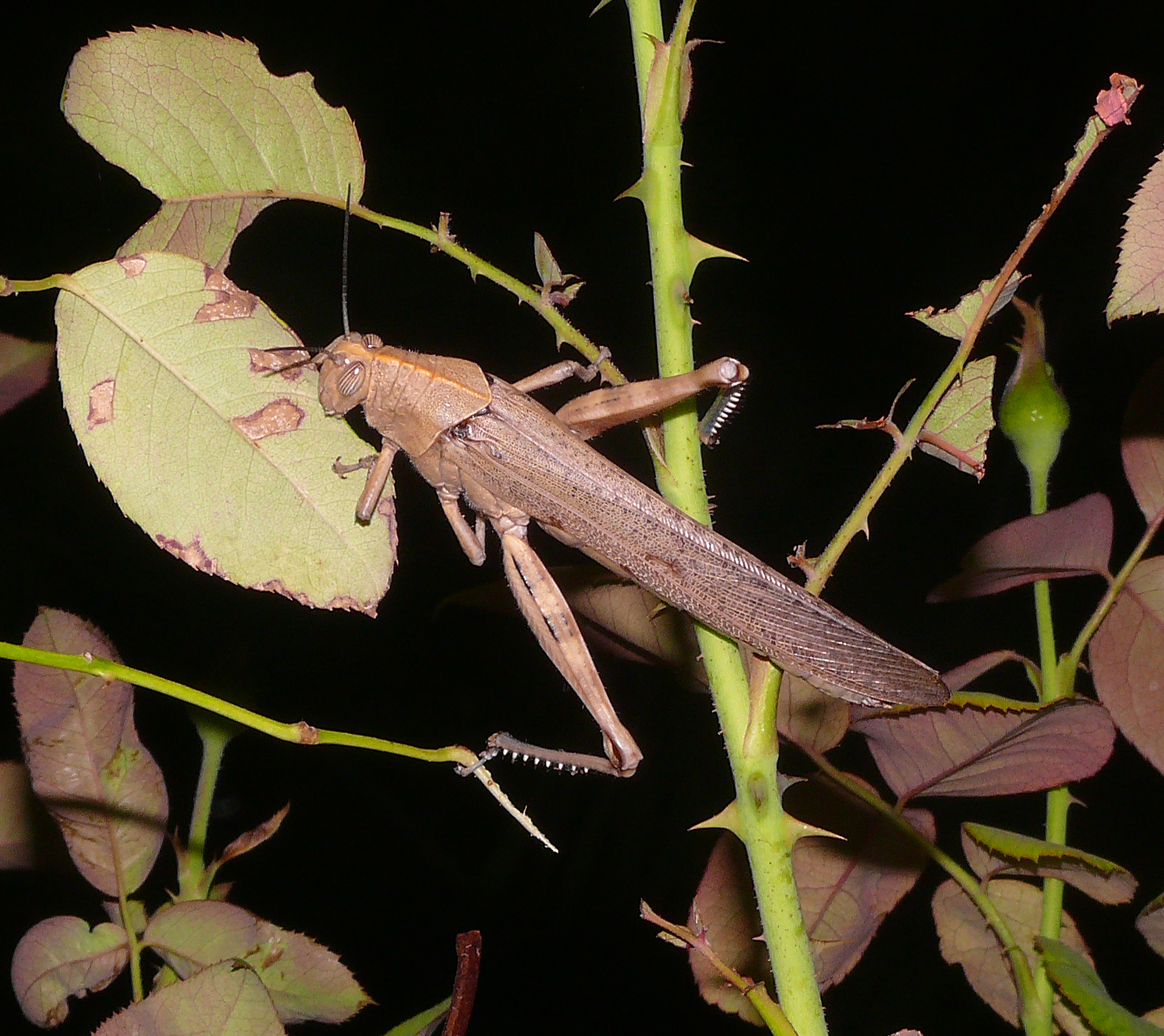 Need to be indentified